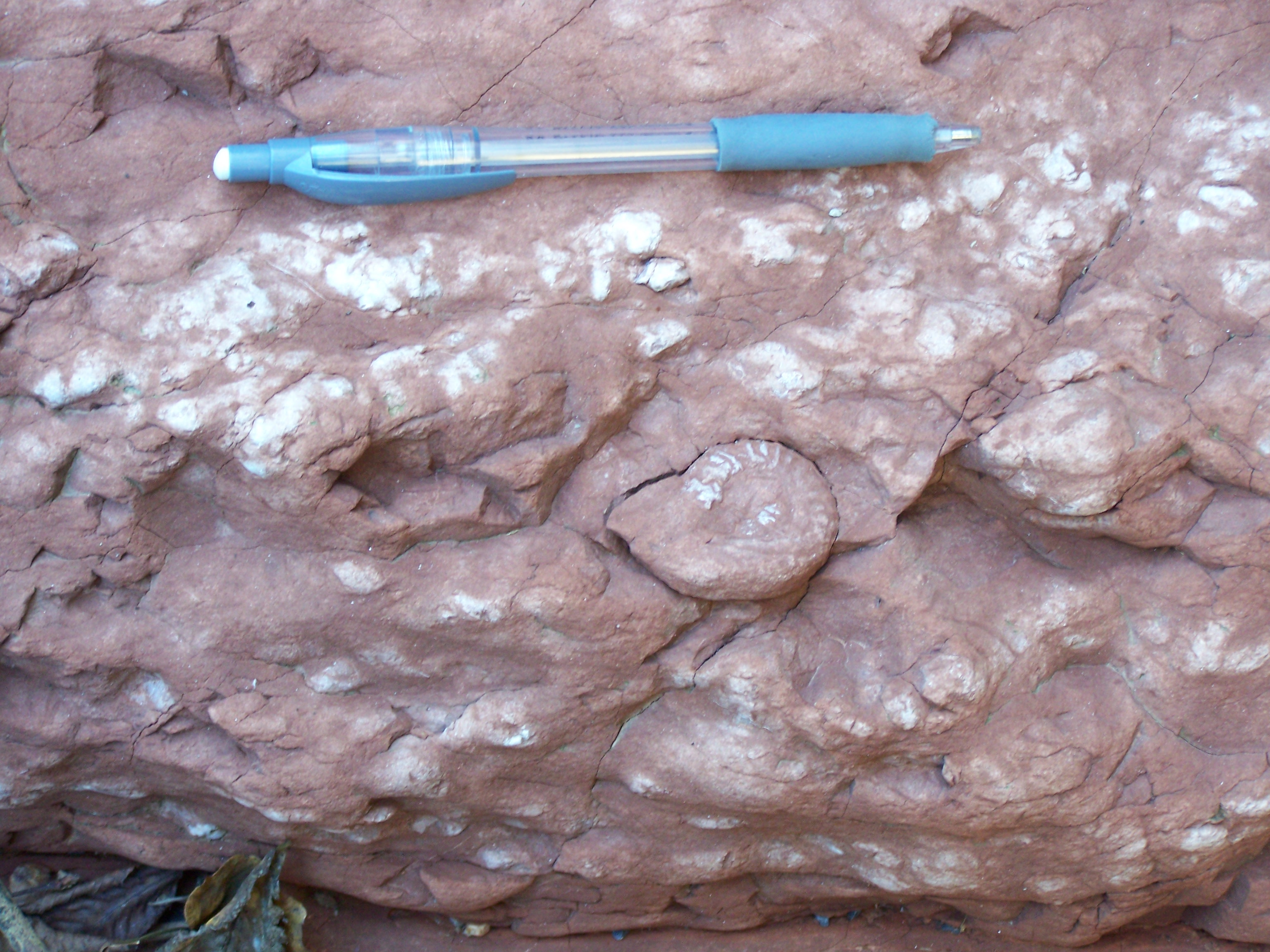 Close-up of the Rosso Ammonitico Lombardo formation, with ammonite fossil. Age: Toarcian; location: Monte San Giorgio, Ticino, Switzerland.